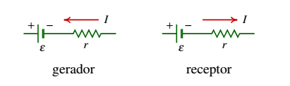 Gerador receptor